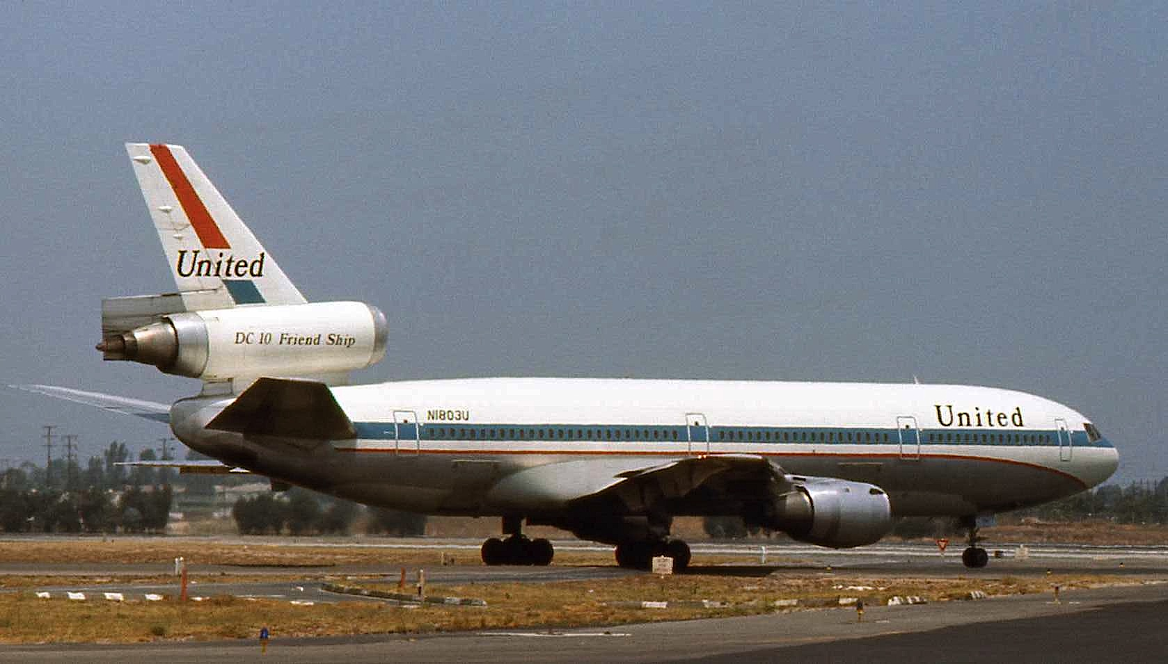 United Airlines McDonnell Douglas DC-10-10, c/n 46602, N7629U was the third delivered on June, 3rd, 1972. Engine number 2 bears the text "DC 10 Friend Ship".